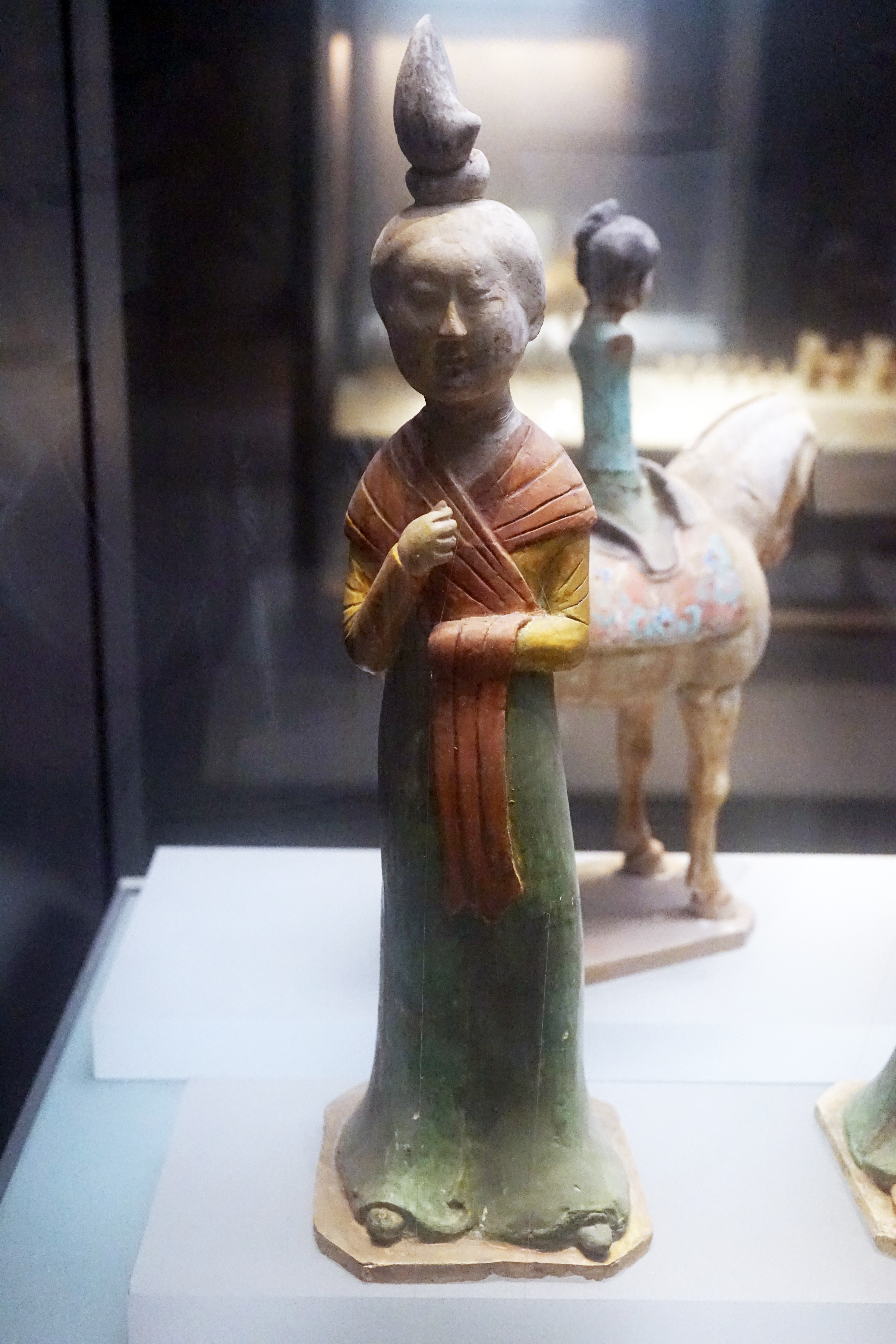 Pottery Female Attendant. Tang Dynasty. Unearthed from Prince Jie Min's tomb. 眉清目秀，高鼻小嘴，尖下巴。结“翻刀髻”，两耳微露，头发上拢。黄色窄袖衫，下身拖地长裙，腰束带，肩披褐色帛，足穿黄绿尖头鞋，脚踩底板。一级文物。